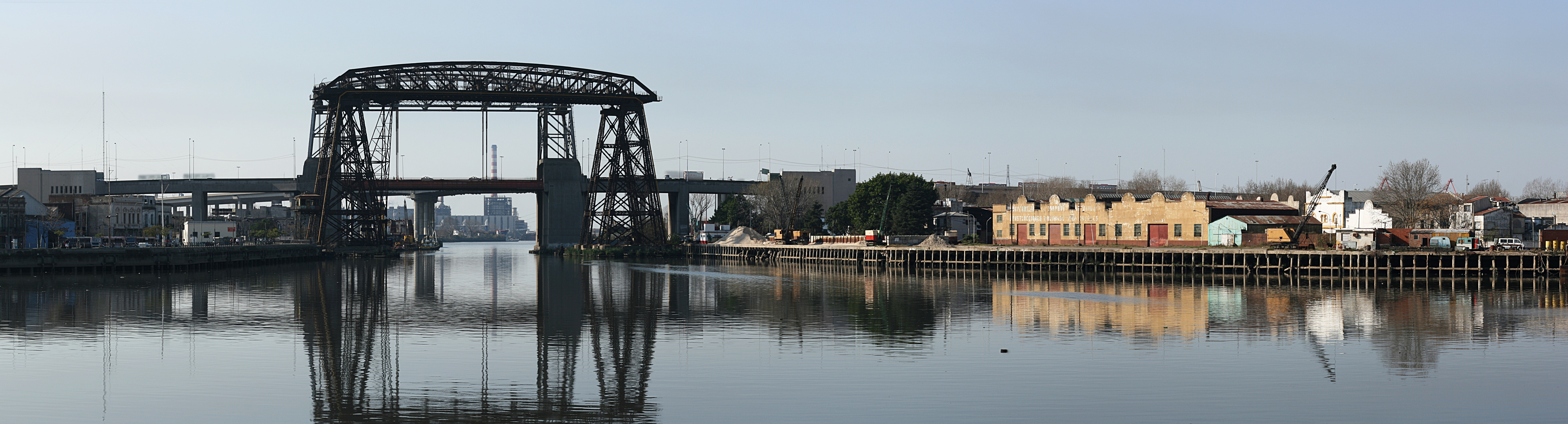 The Riachuelo, Nicolas Avellaneda Bridge and Maciel Island, La Boca, Buenos Aires, Argentina.